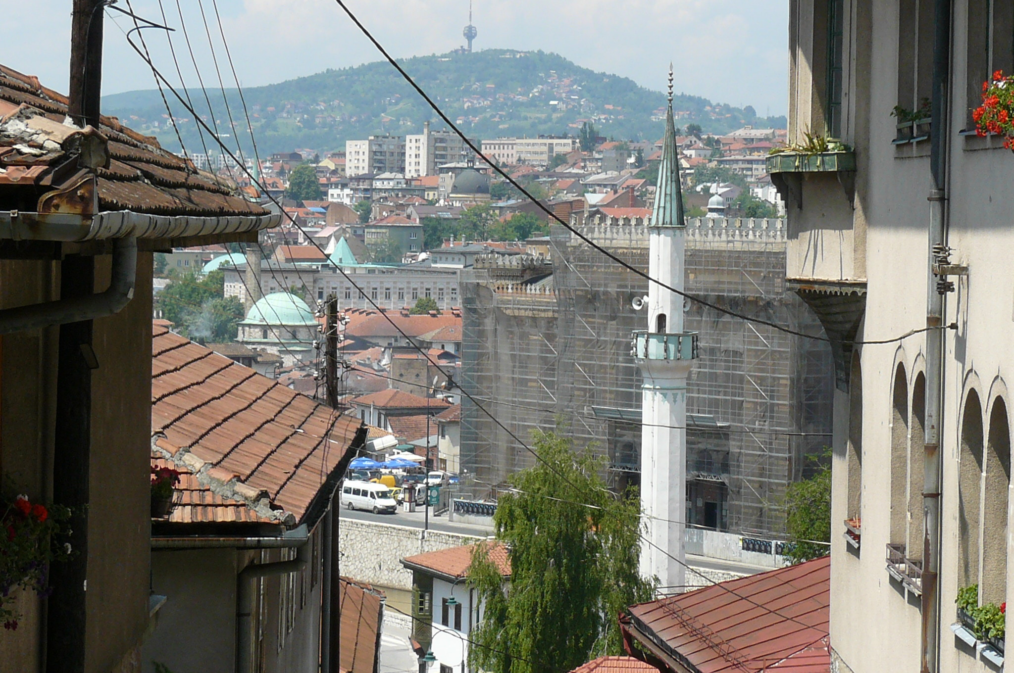 City Hall Sarajevo. Modernisation in 2010.